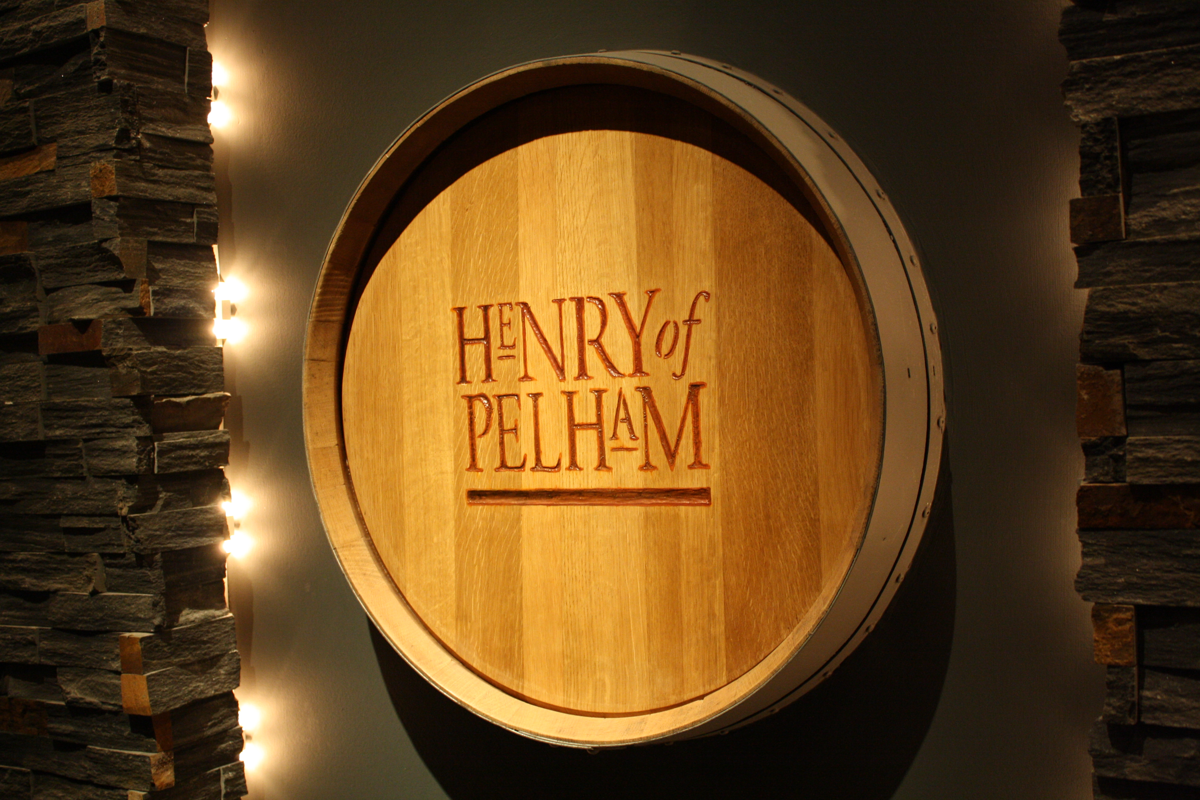 Ontario Canadian winery Henry of Pelham logo engraved on a barrel at the winery